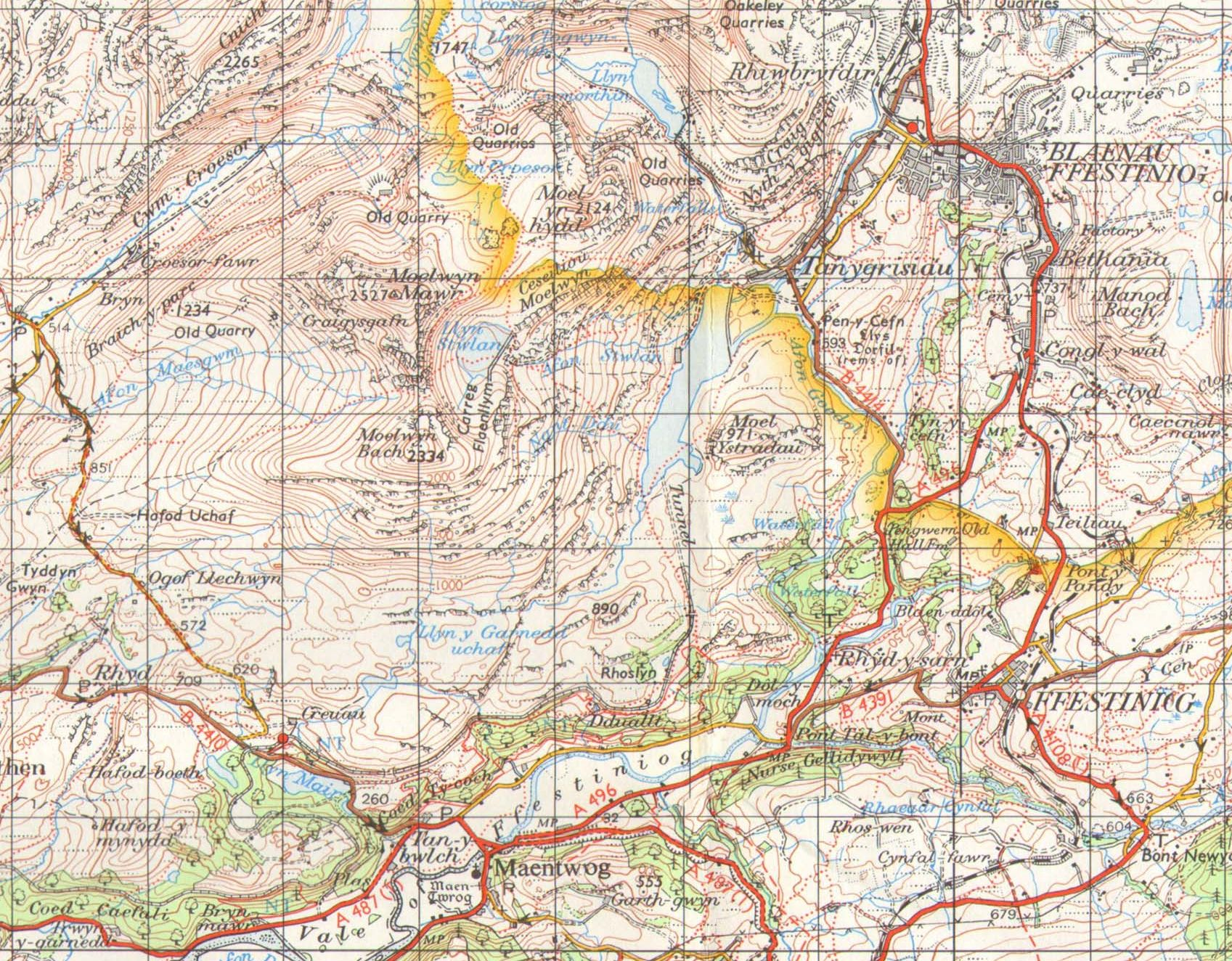 Extract from the Seventh Series OS one-inch map sheet 116 showing the section of the Ffestiniog railway from Tan y Bwlch to Blaenau Ffestiniog